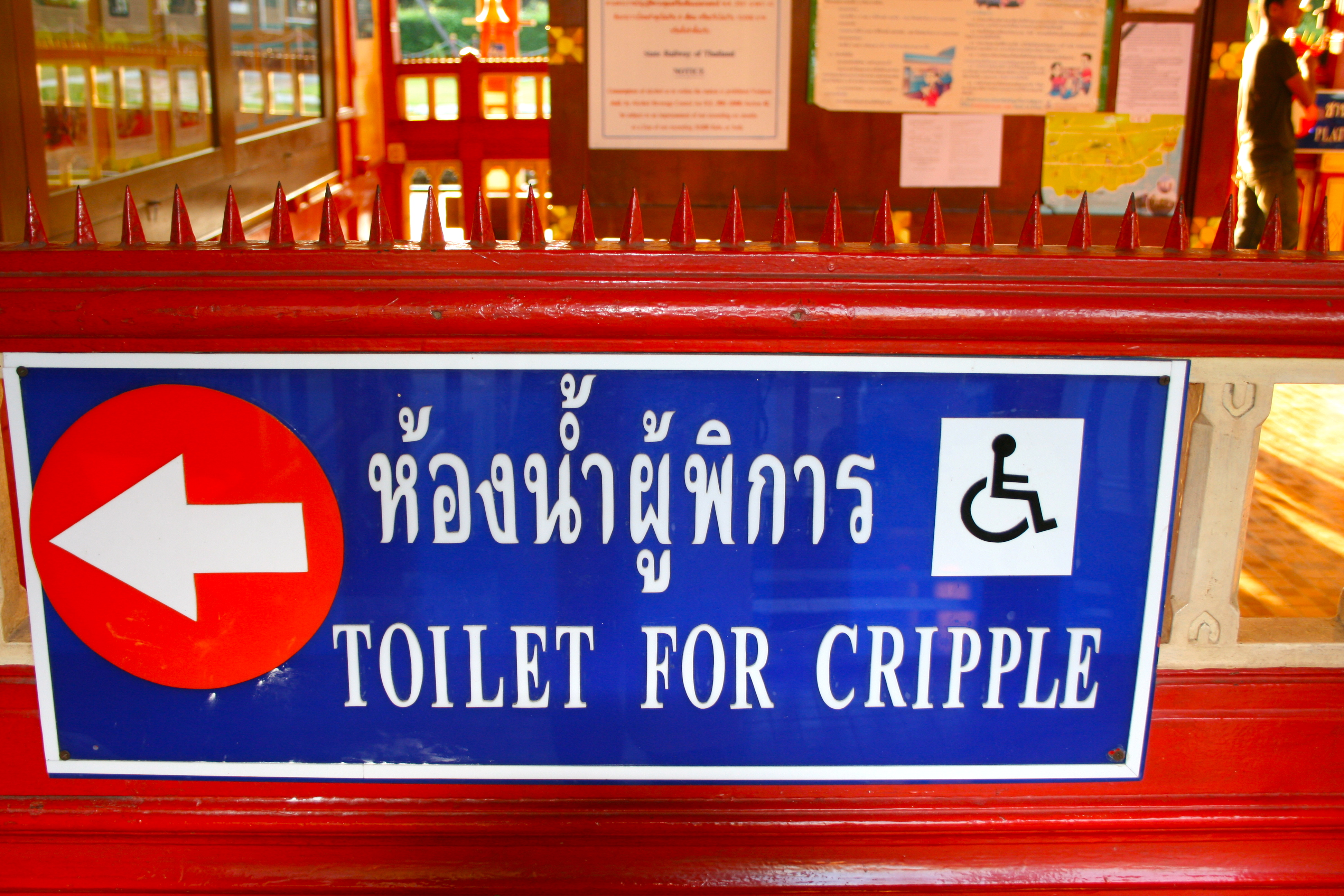 Well at least they have facilities for the disabled.